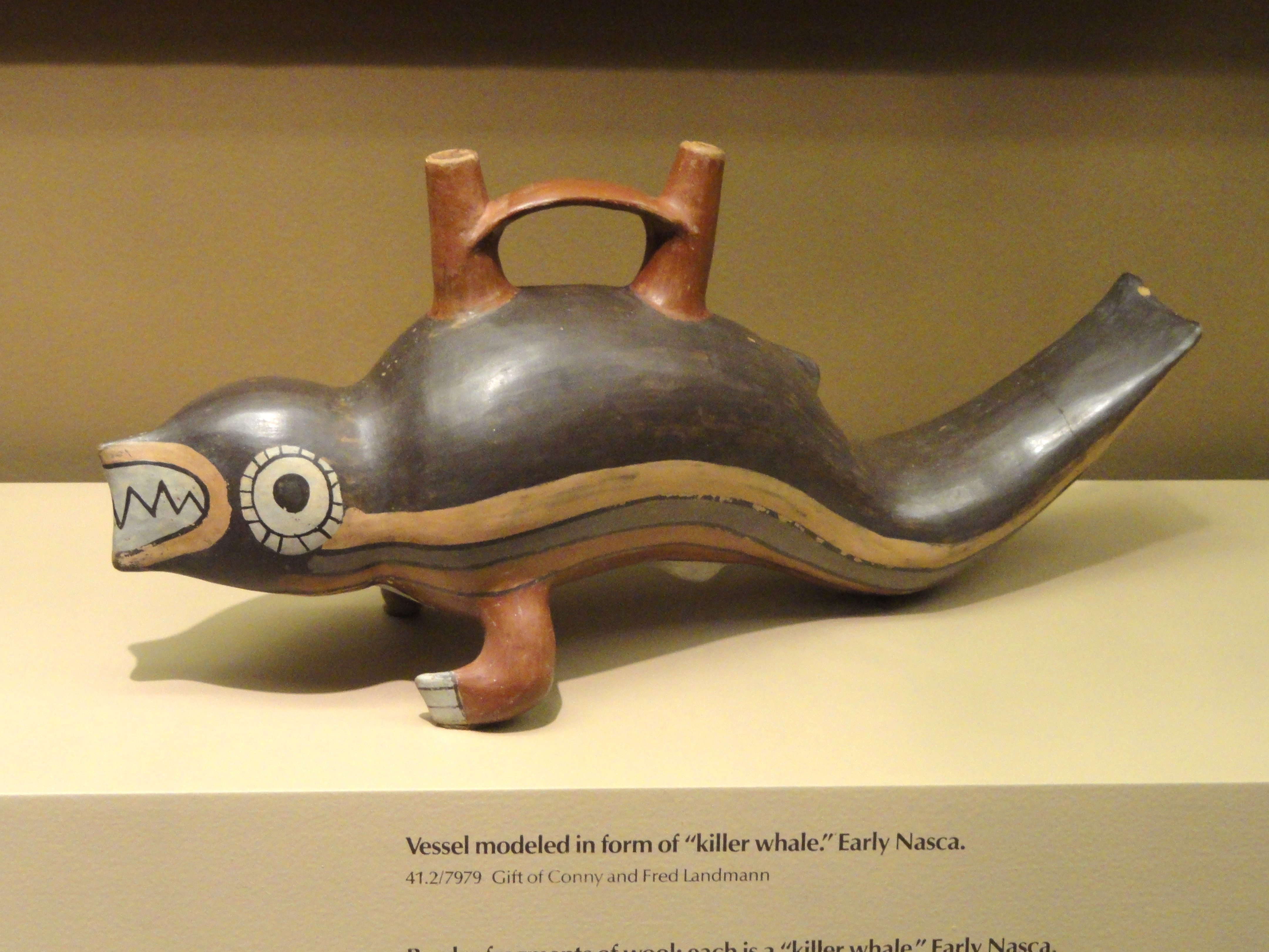 Exhibit in the South American collection of the American Museum of Natural History, Manhattan, New York City, New York, USA.